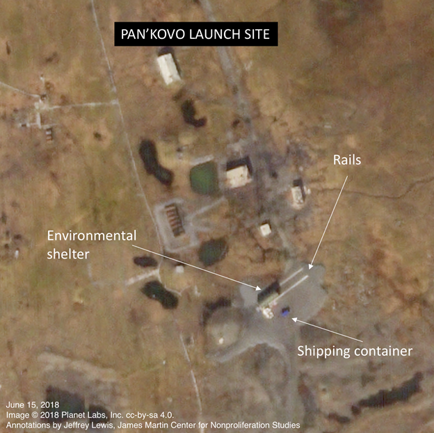 Pan'kovo cruise missile launch site on Planet satellite imagery